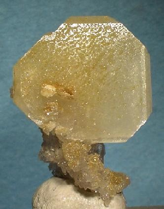 Apophyllite Locality: Fengjiashan Mine (Daye Copper mine), Edong Mining District, Daye County, Huangshi Prefecture, Hubei Province, China (Locality at ) Size: 3.5 x 2.7 x 2.0 cm. A beautifully sharp and pristine, tabular apophylllite crystal jauntily perched on another generation of apophyllite from recent finds at the Fengjiashan Mine at Daye, China. This lustrous and translucent, tan crystal is lightly frosted and etched and has outstanding beveled edges. Textbook and classic material.